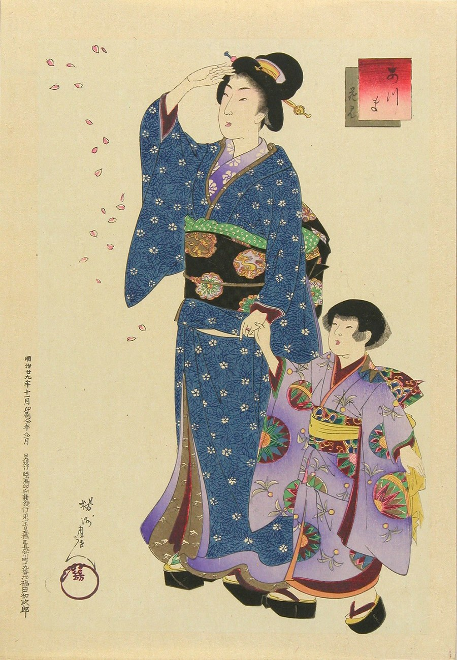 A woodblock print from the series by Yōshū Chikanobu (1838-1912) Fashions of the East (Azuma), published by Fukuda Hatsujirō, depicting a woman and a child watching the cherry blossoms fall (hanami)